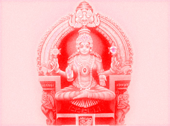 Devi